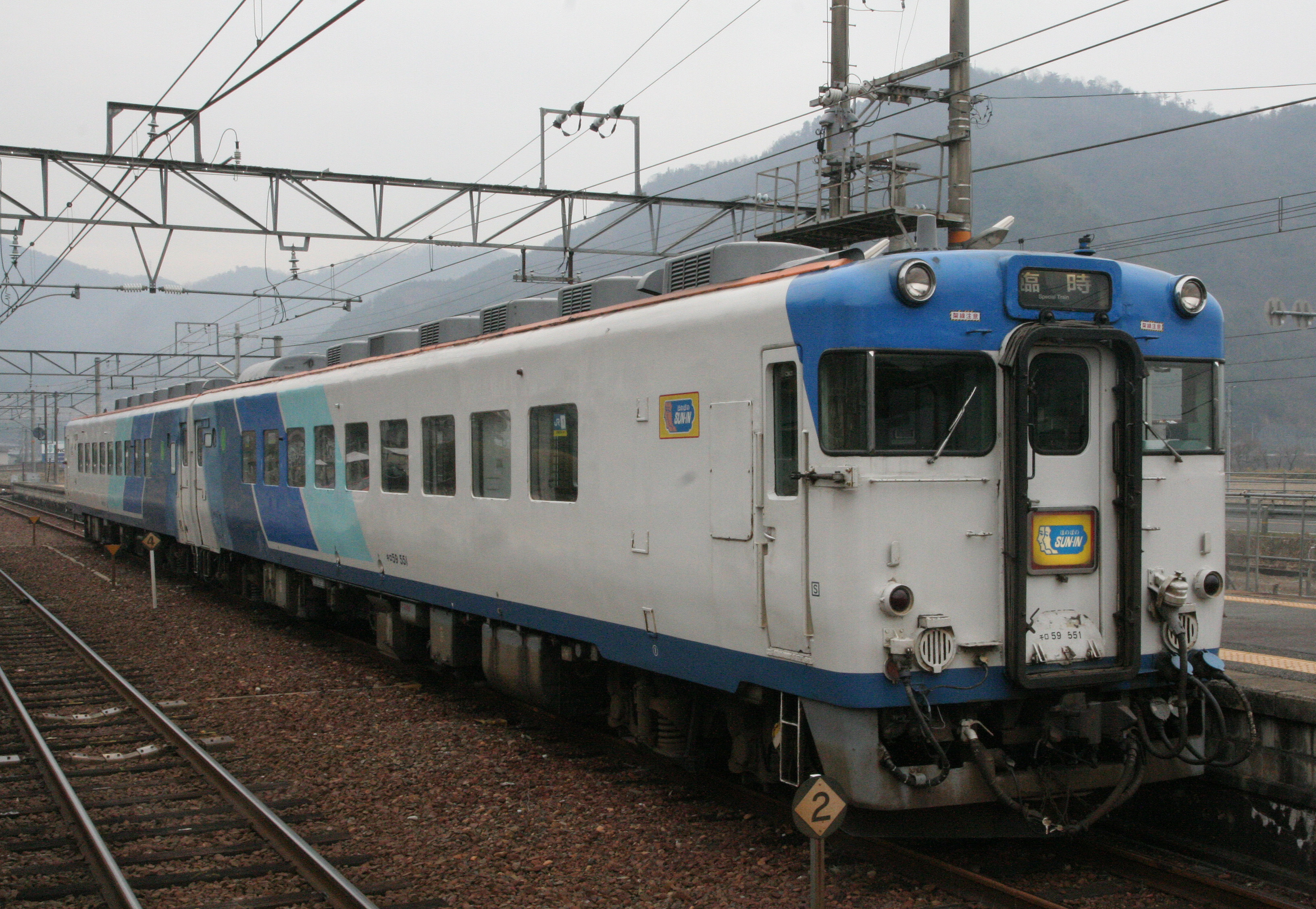 West Japan Railway Honobono SUN-IN kiro59-551 + kiro29-551 Hakubi Line gokei